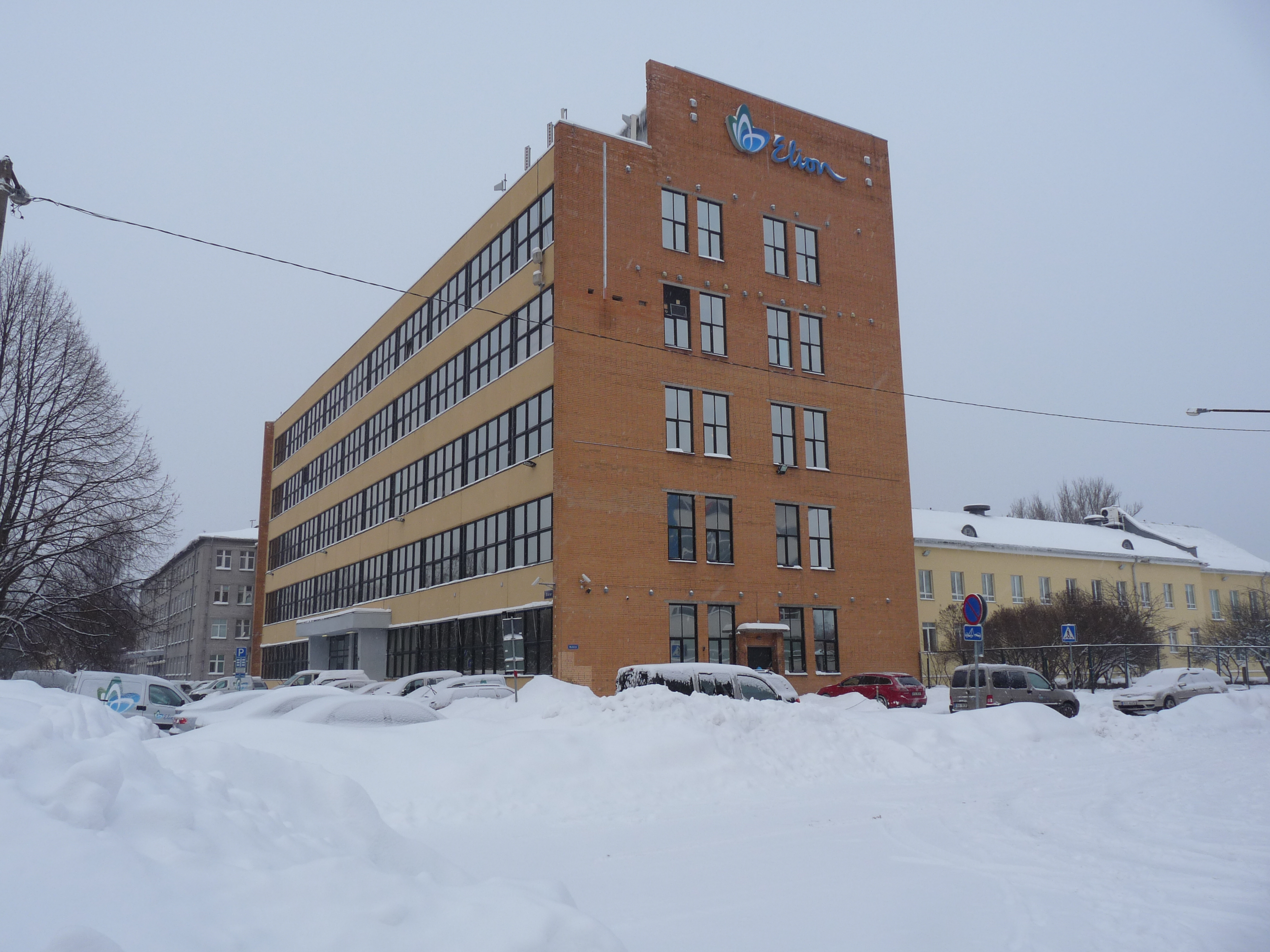 Elion office on Sõle street